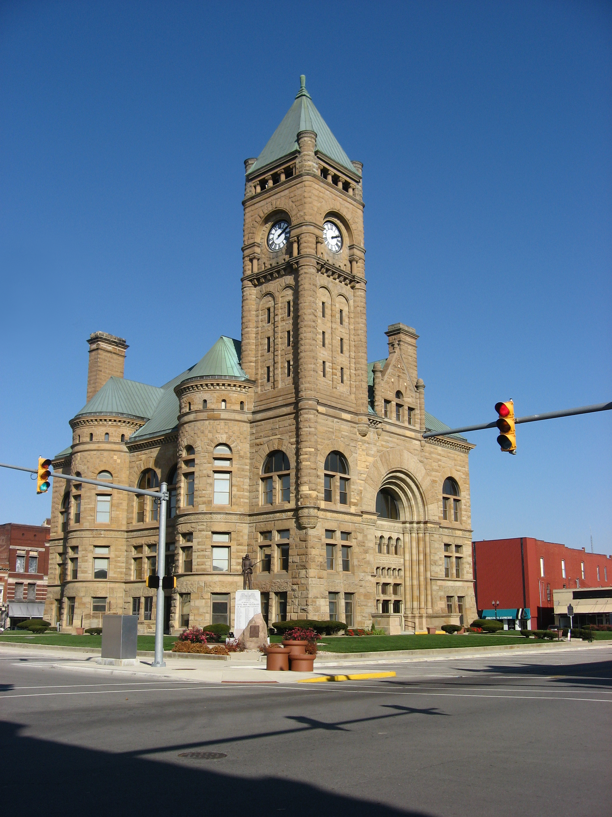 Front and western side of the Blackford County Courthouse, located along State Road 26 on Courthouse Square in downtown Hartford City, Indiana, United States. Built in 1894, the courthouse is listed on the National Register of Historic Places.